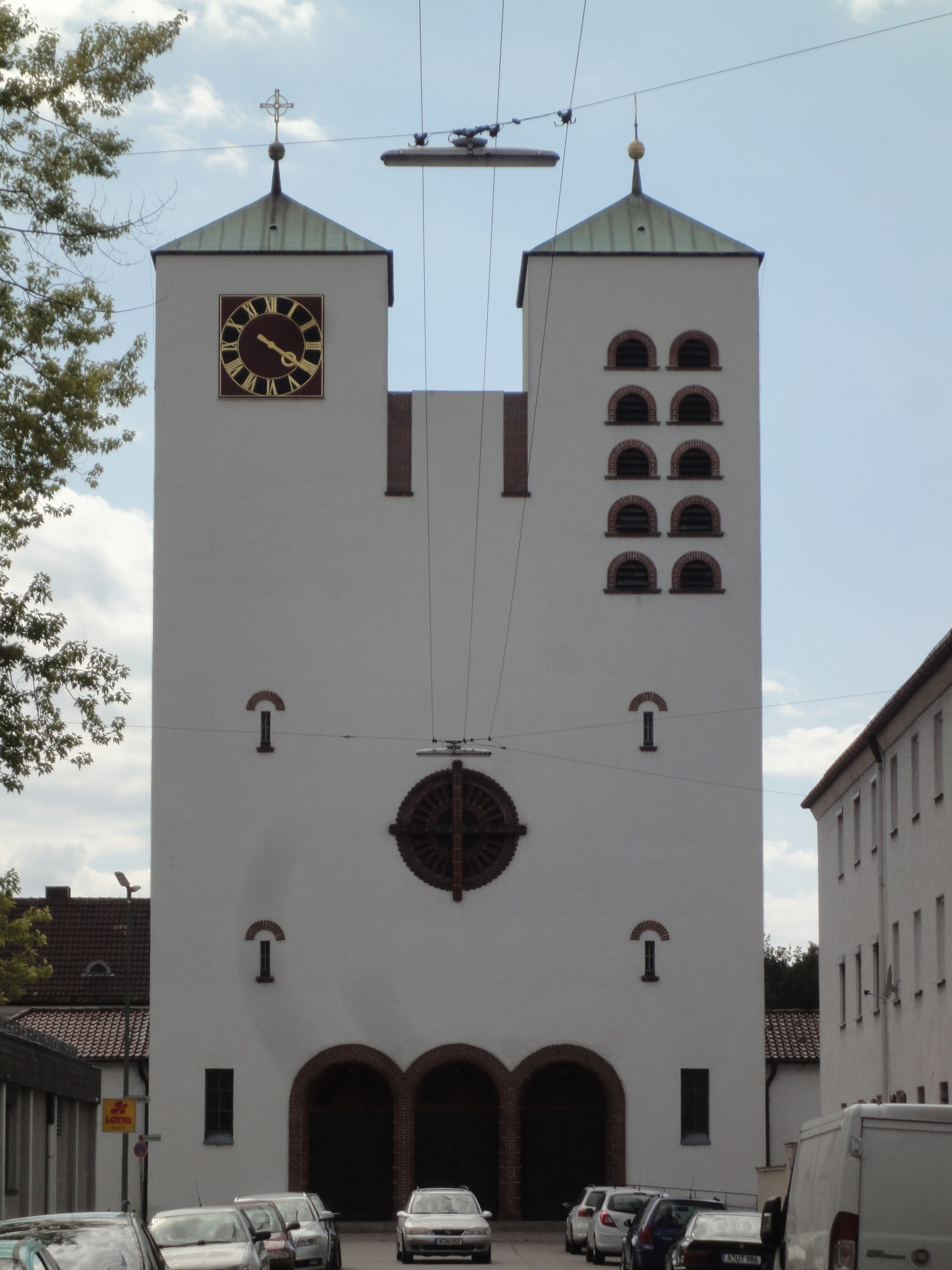 church in Augsburg-Oberhausen